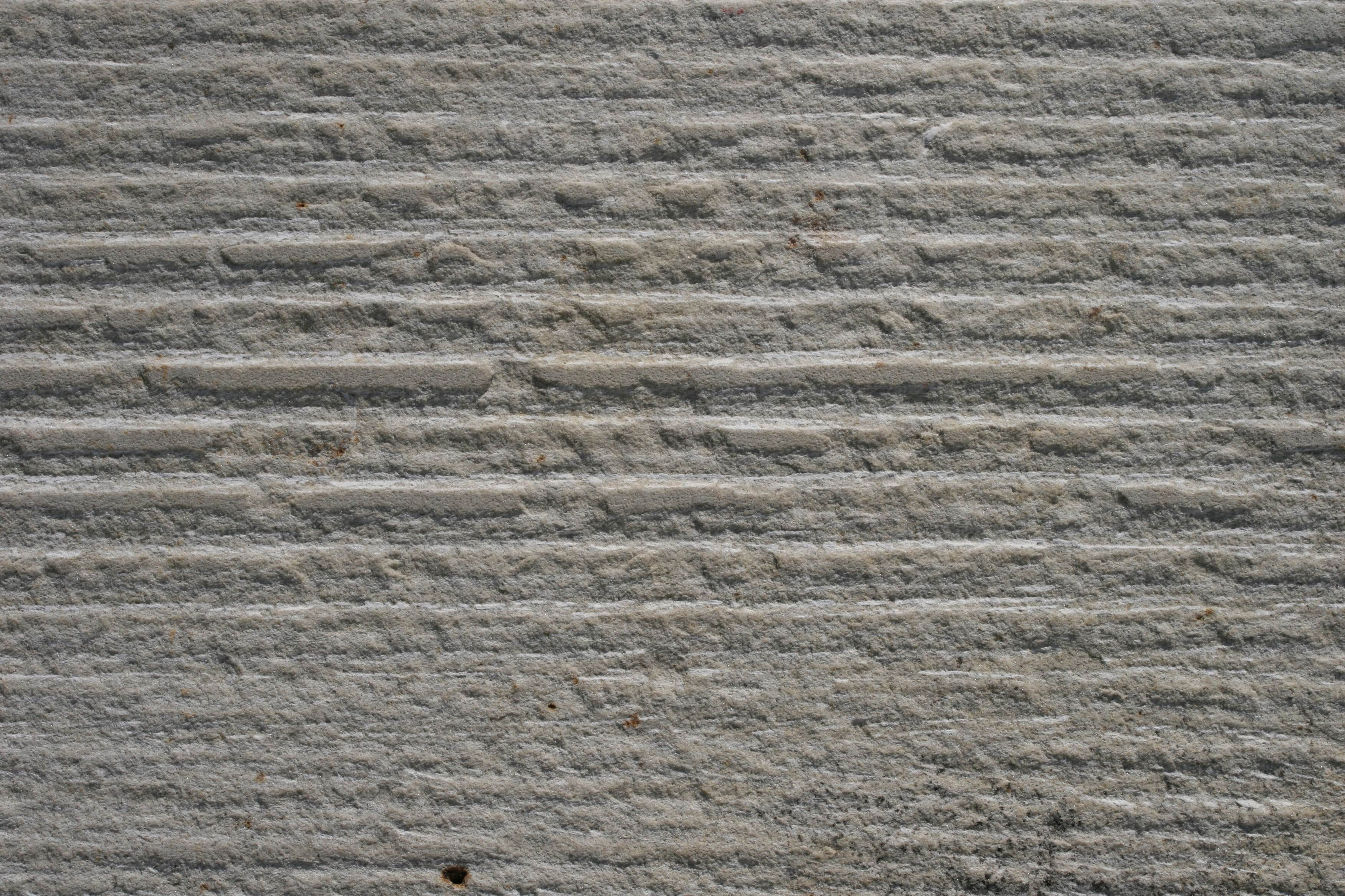 Sandstone, with machine-cut surface de